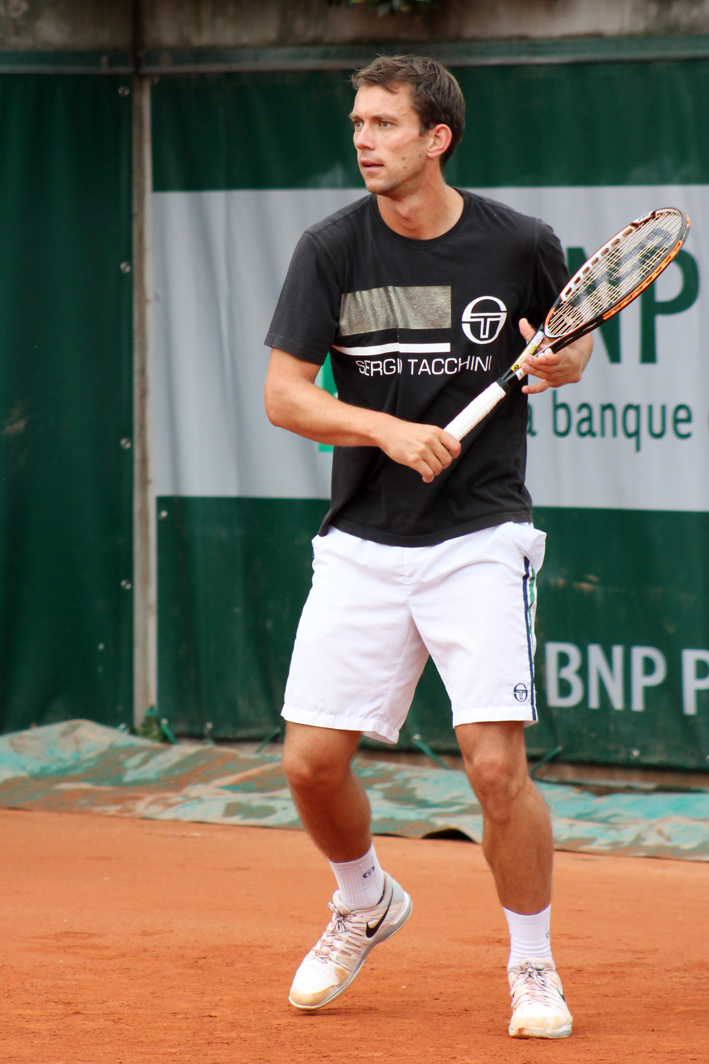 Frederik Nielsen practicing at Roland Garros 2013